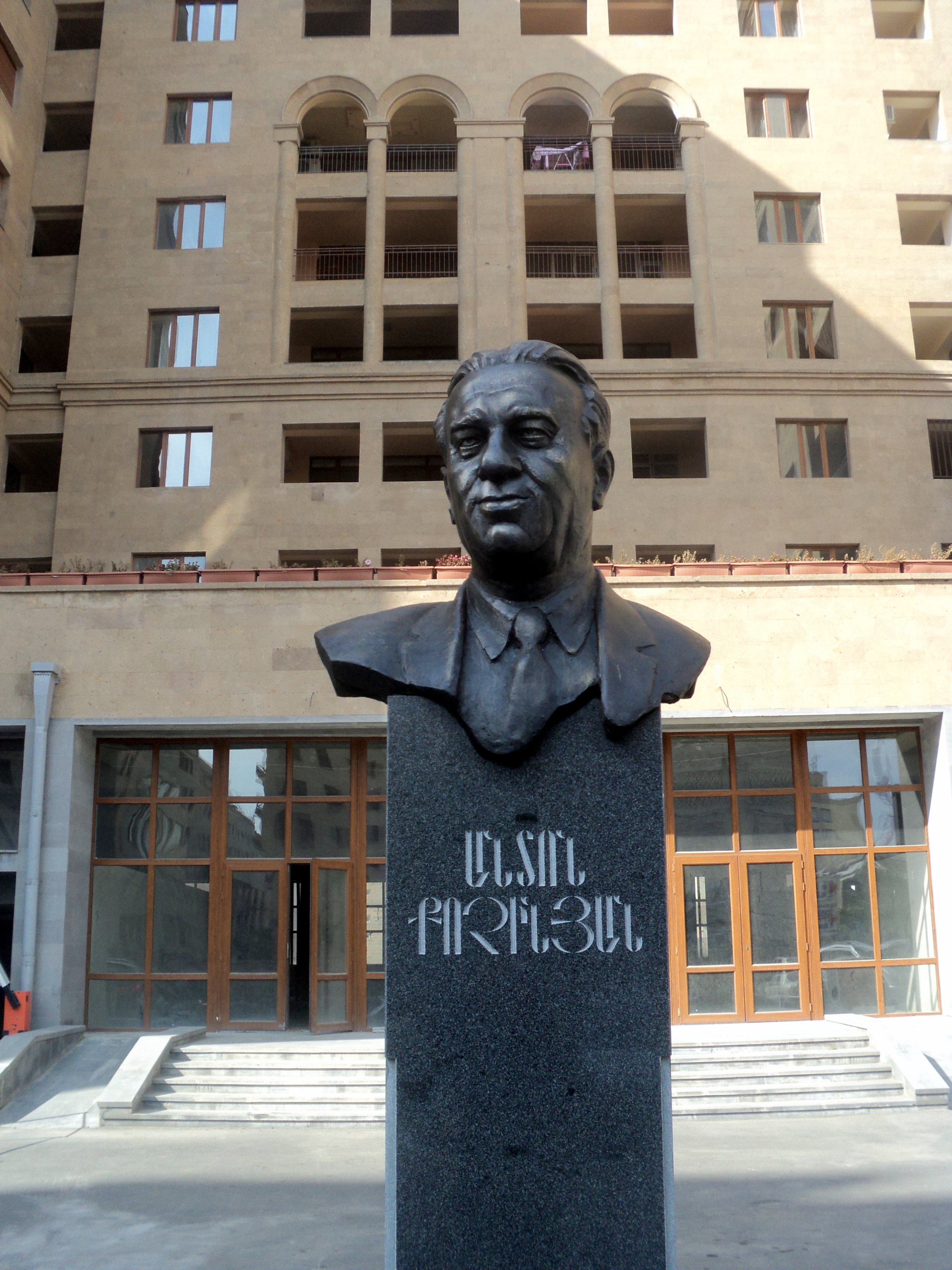 Քանդակագործ Տիգրան Արզումանյան